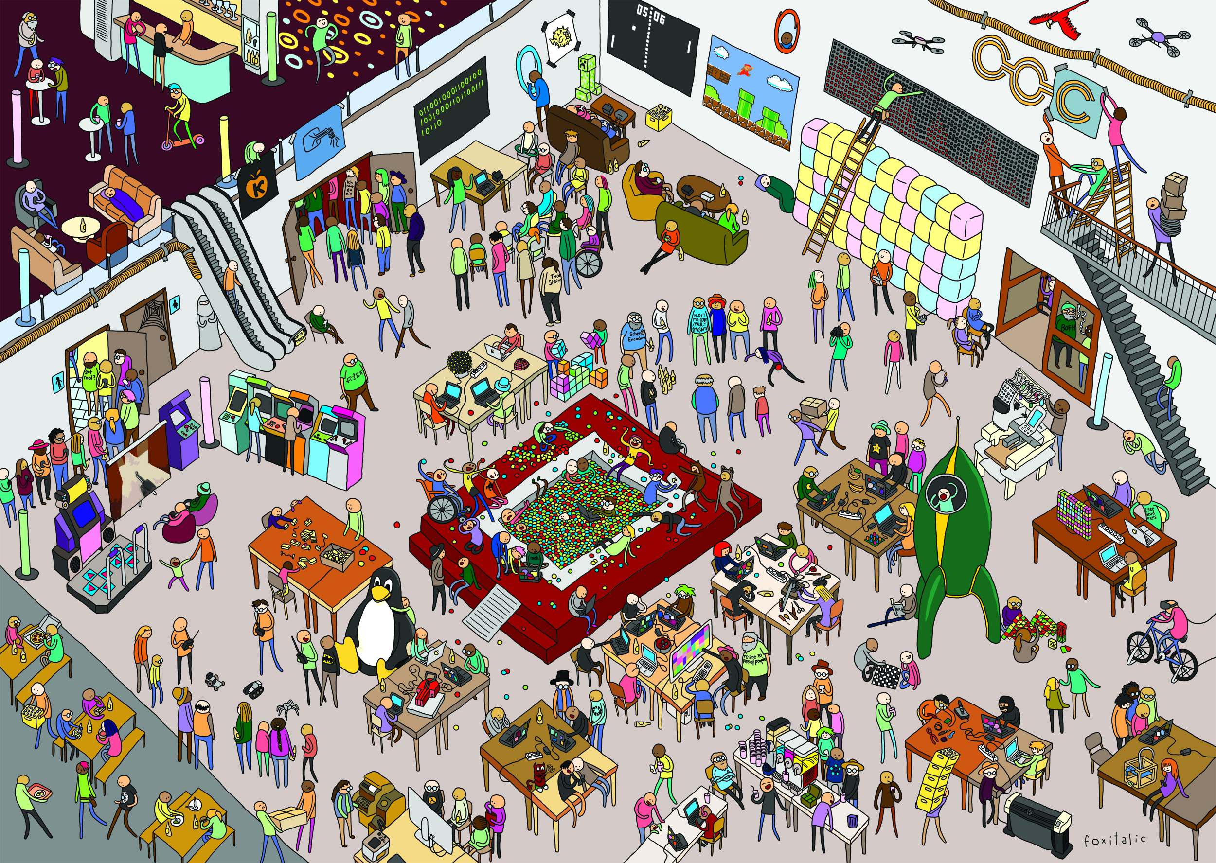 Painting ("Wimmelbild") about the 31st Chaos Communication Congress (31C3) in Hamburg